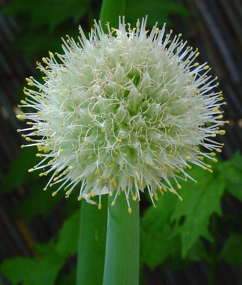 Onion